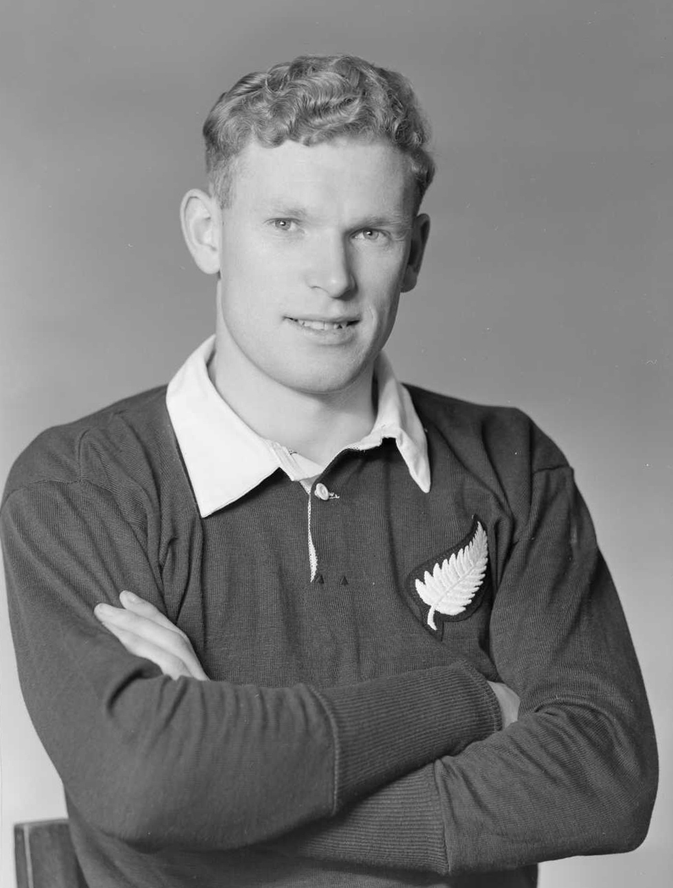 Photograph of rugby All Black trialist Jack Kelly, taken by Crown Studio Ltd of Wellington.